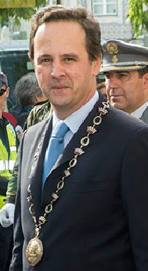 Fernando Medina, Mayor of Lisbon, during the procession of Our Lady of Good Health. Lisbon, 8 May 2016.